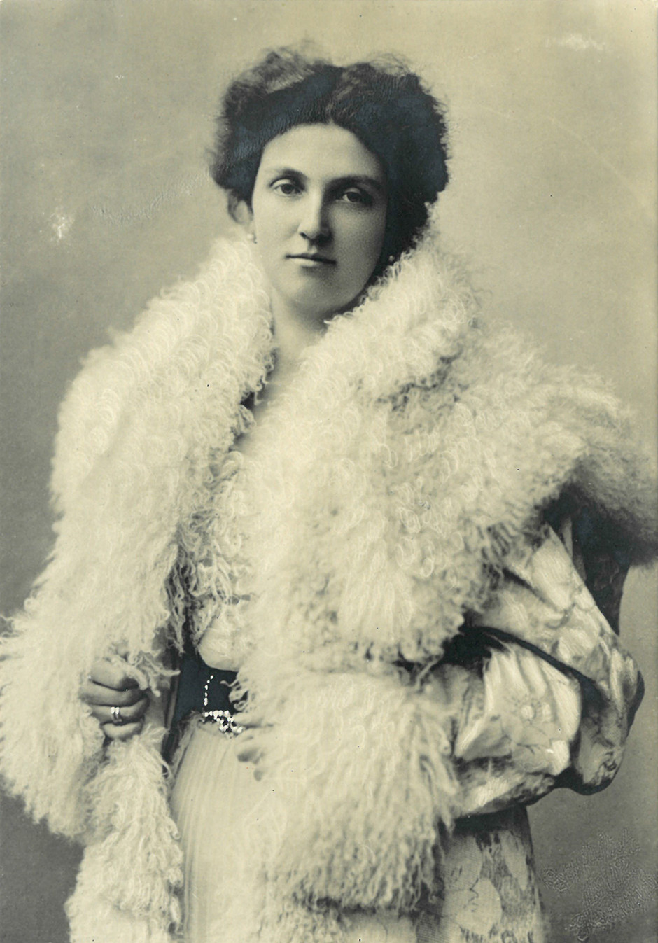 Luise of Tuscany (2 December 1870, Salzburg – 23 March 1947, Brussels)